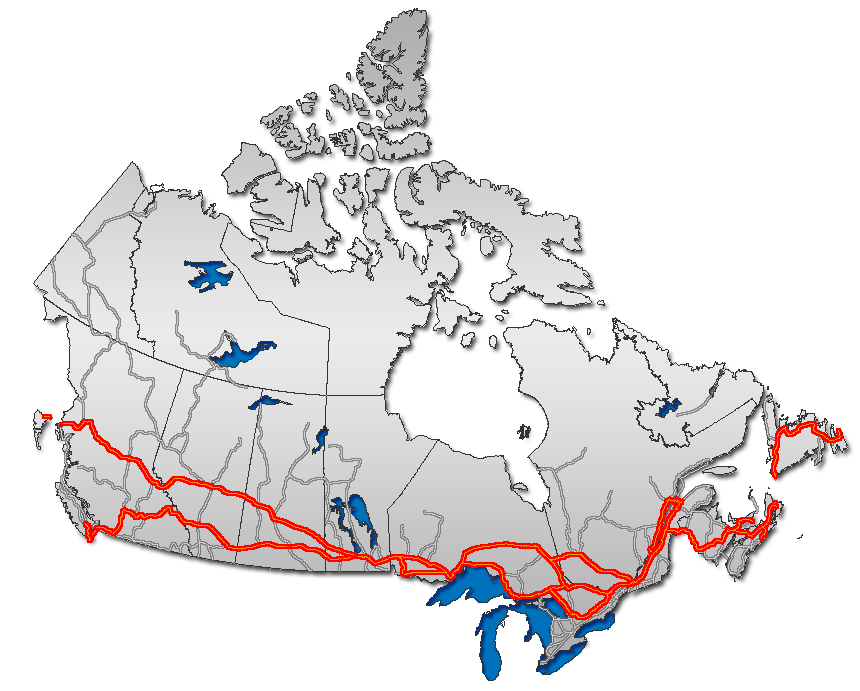 Trans Canada Highway, as overlaid on Canada map